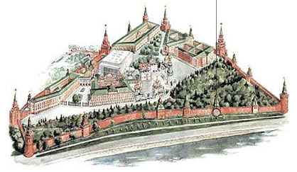 Overview map of the Moscow Kremlin. Location of Vtoraya Bezymyannaya Tower marked.